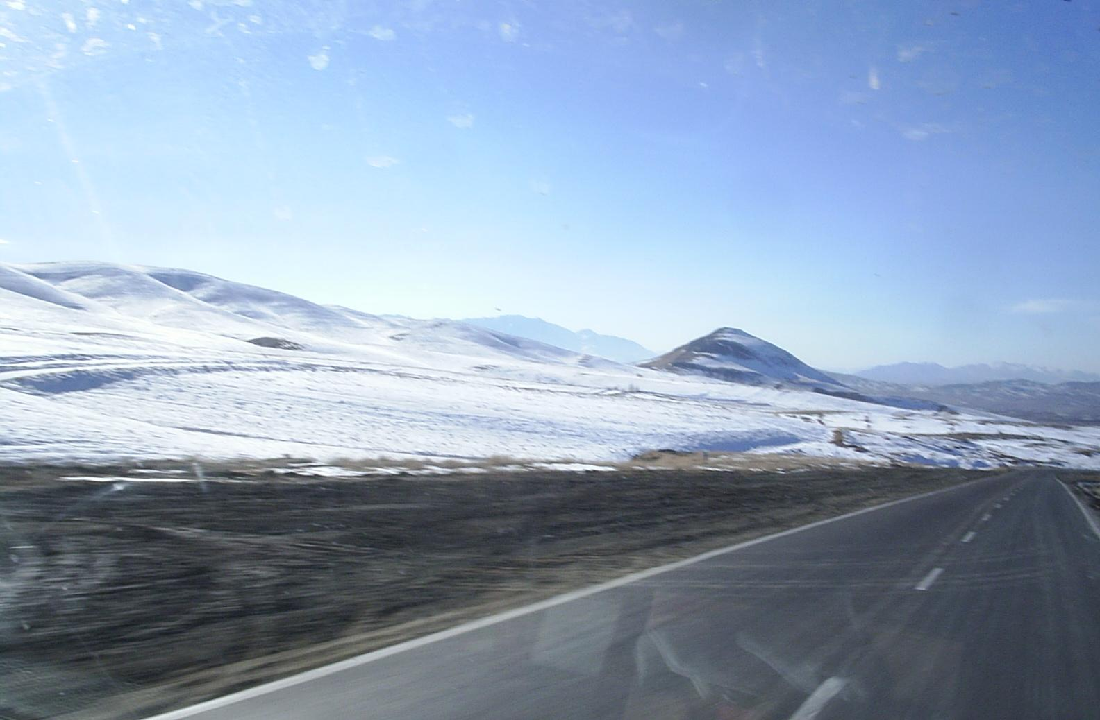 Road near to Aligoodarz at winter.